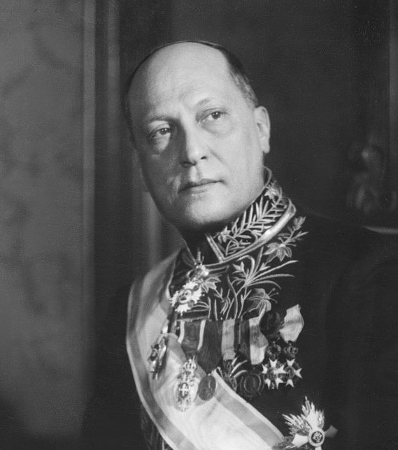 Yugoslav Ambassador and Minister of Foreign Affairs Aleksandar Cincar-Marković.